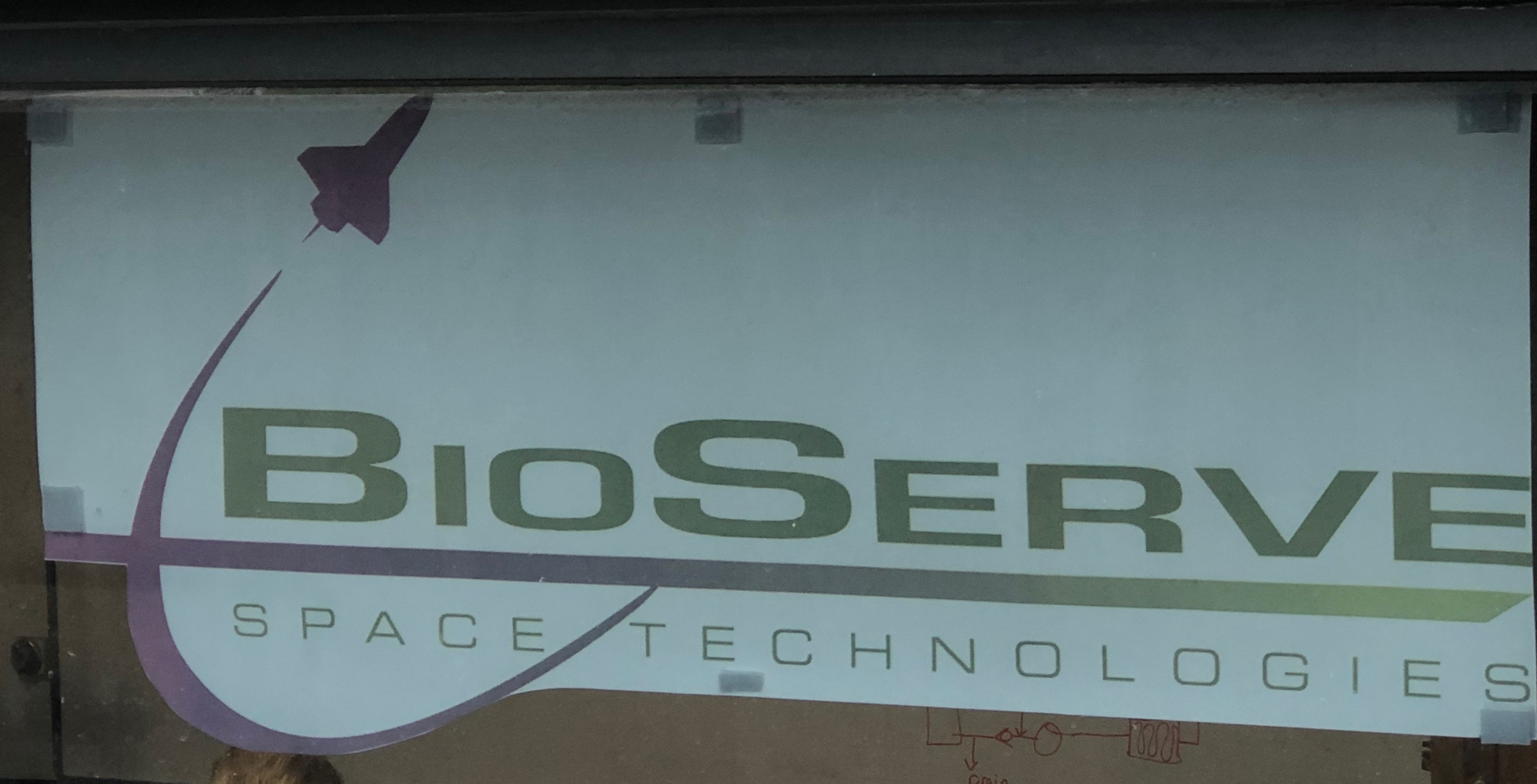 BioServe logo posted near the ECAE wing.